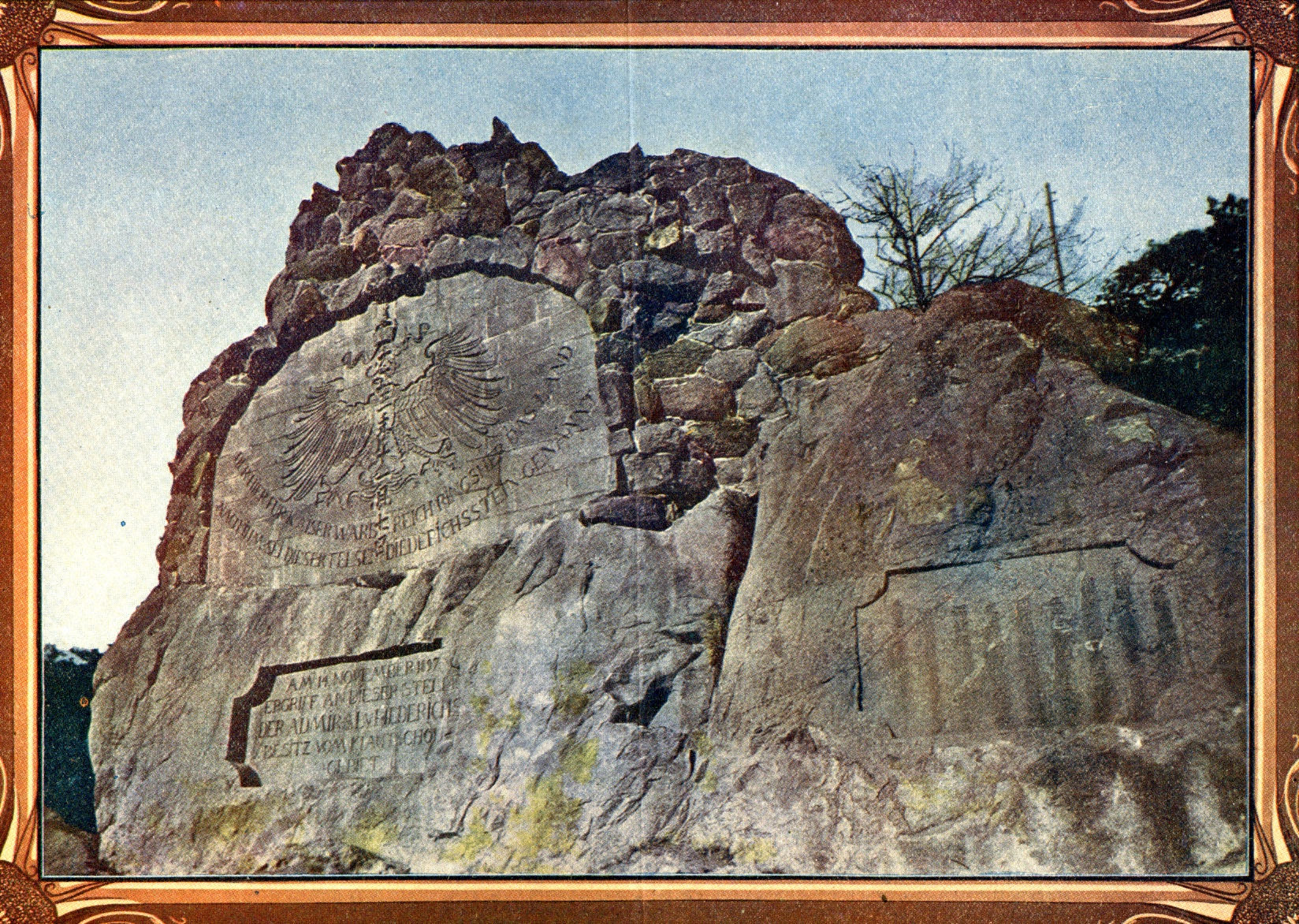 Diederichs's stone on the slope of Signal Mountain, Qingdao, Shandong, China.